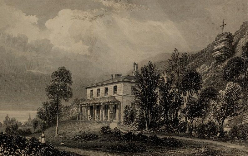 Pulpit Rock, Bonchurch, Isle of Wight, United Kingdom, engraving from William Bernard Cooke, Bonchurch, Shanklin and the Undercliff (1849).